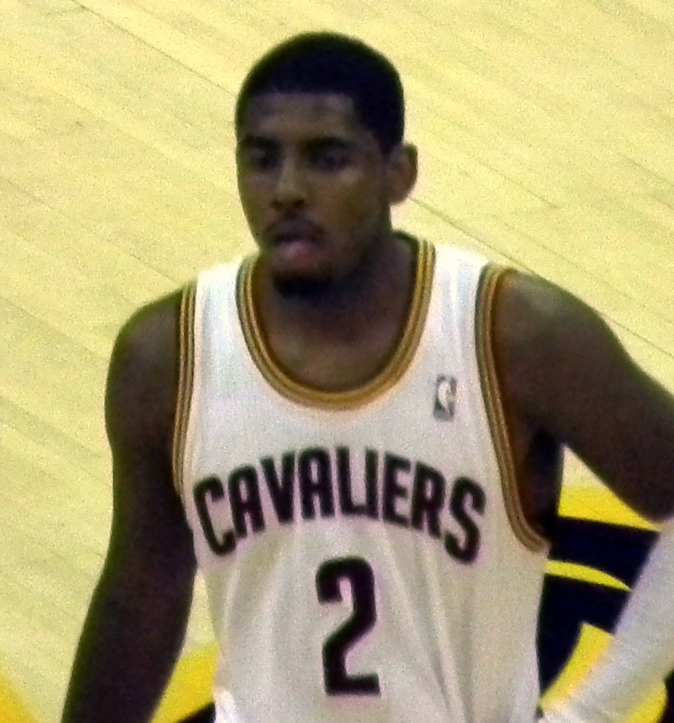 This photo was taken on April 25, 2012 in Gateway District, Cleveland, OH, US